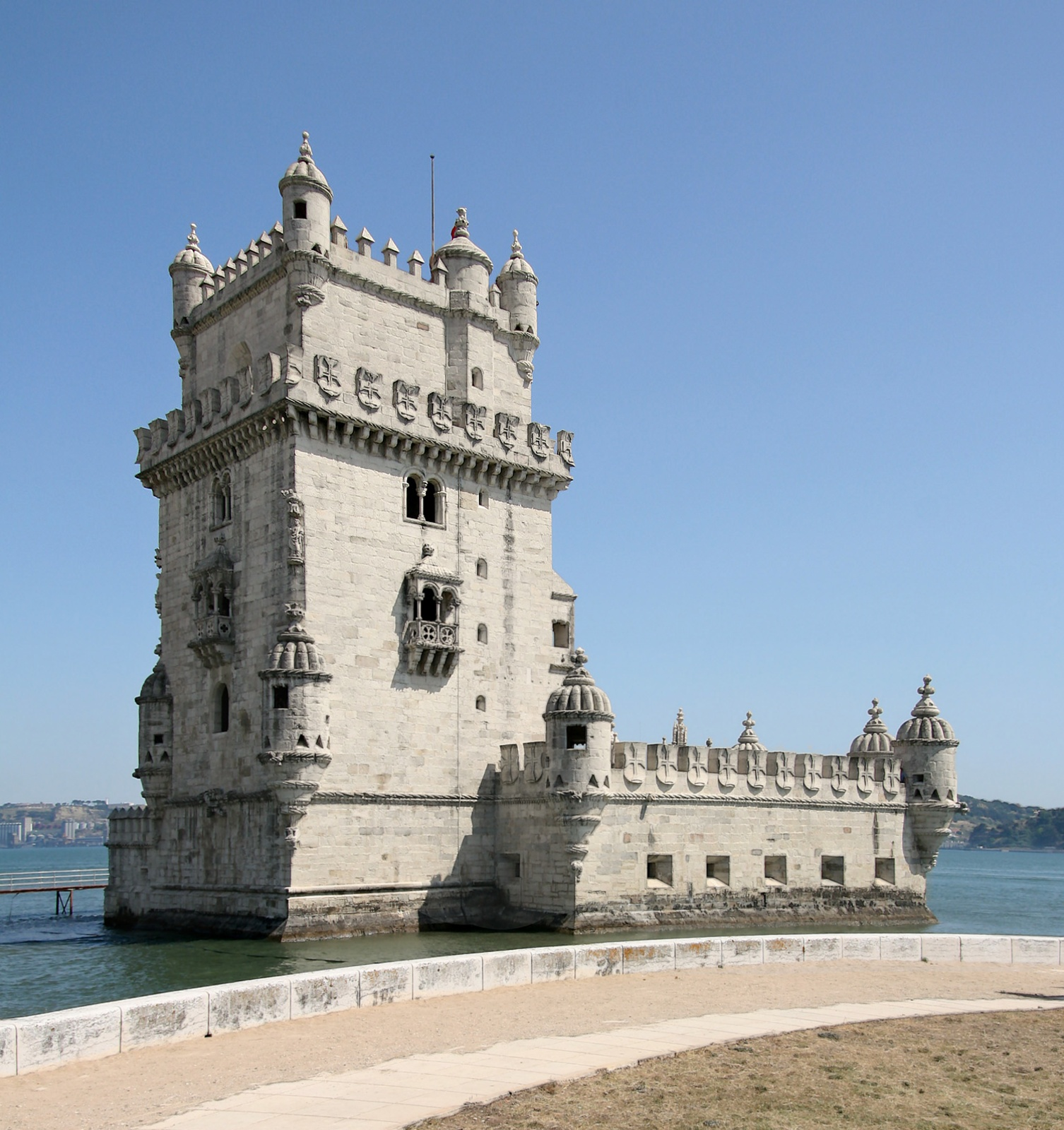 Description: Belém Tower (in Portuguese Torre de Belém, pron. IPA: ['toɾ(ɨ) dɨ bɨ'lɐ̃ĩ]) is a fortified tower located in the Belém district of Lisbon, Portugal.